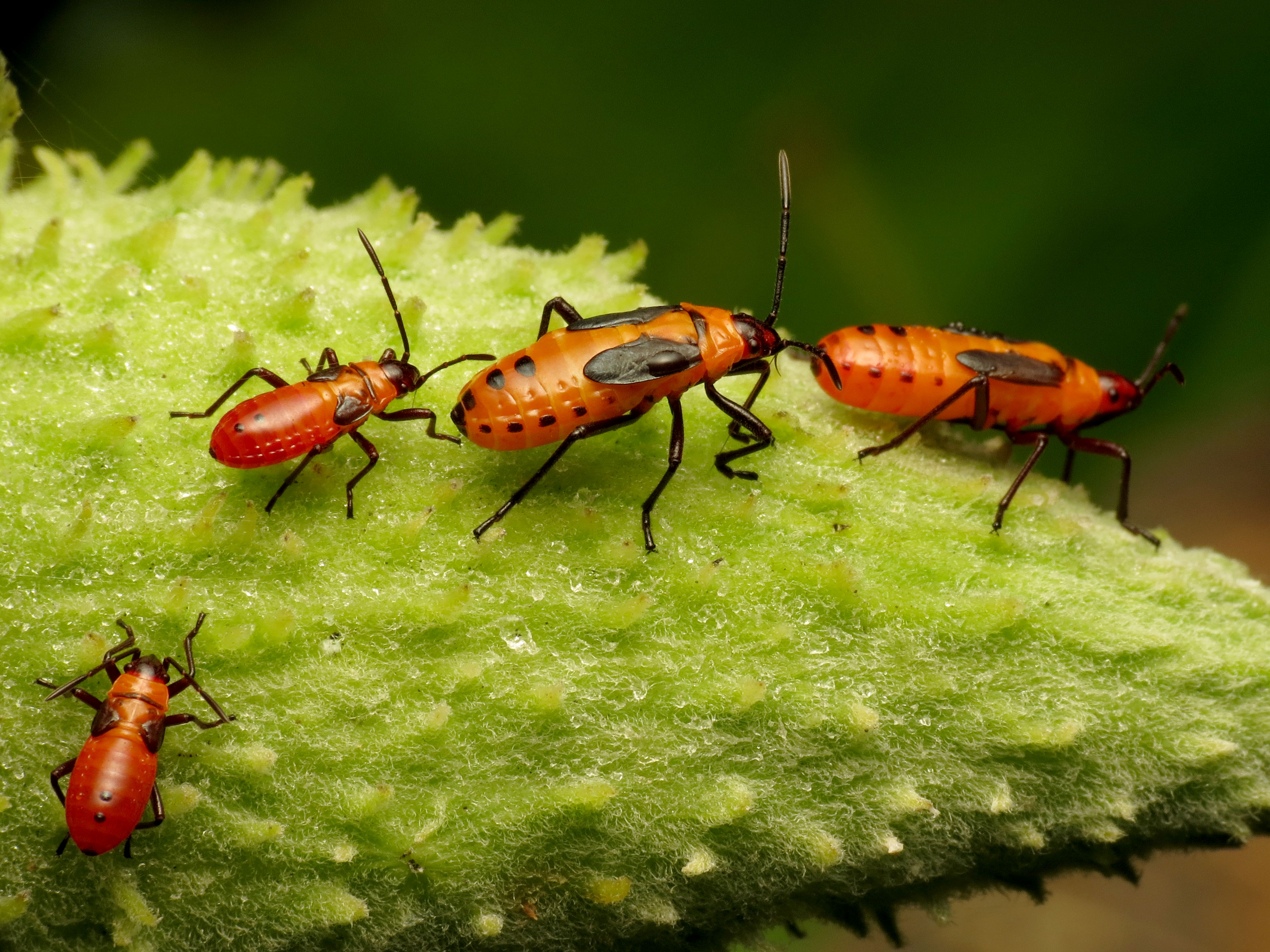 Oncopeltus fasciatus. Woodend Nature Sanctuary, Chevy Chase, Maryland, USA.